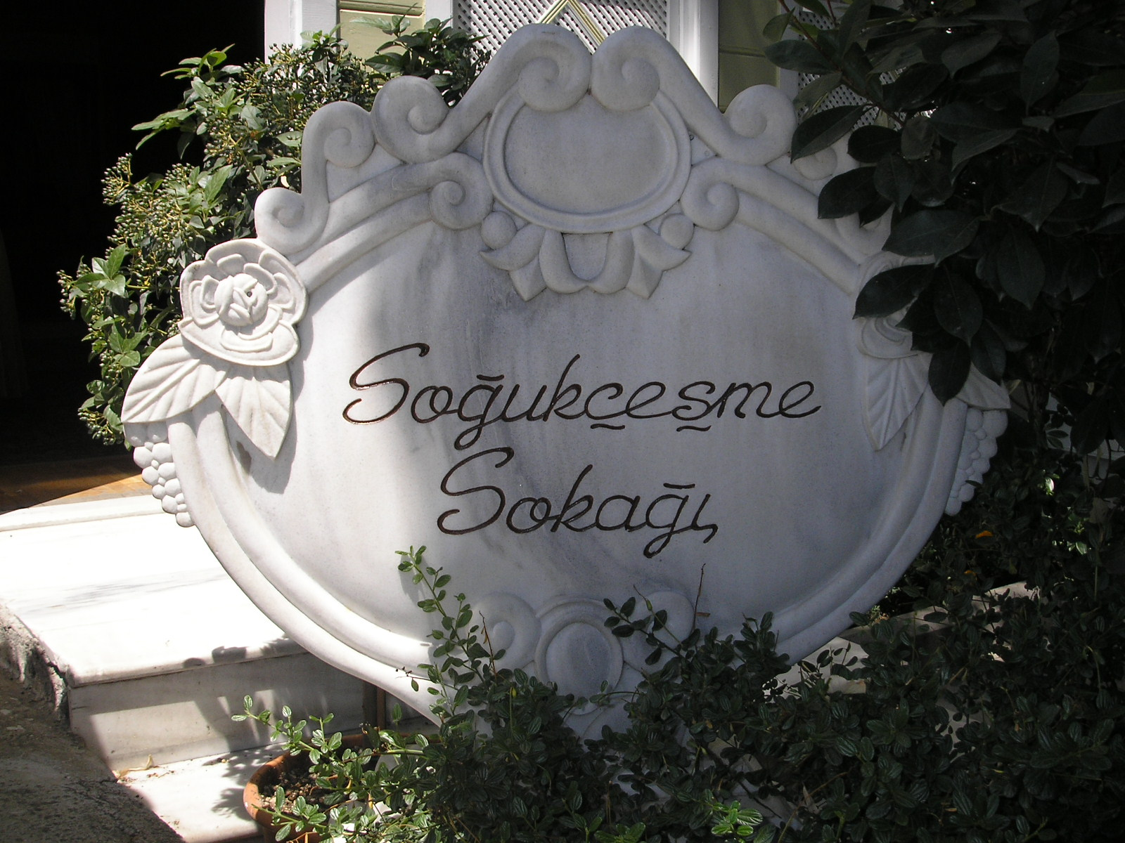 The Soğukçeşme Sokağı is a small street in-between the Hagia Sophia and Topkapi Palace. The street is full of Ottoman-era wooden mansions that have been renovated by the Automobile Club of Turkey into luxury hotels.